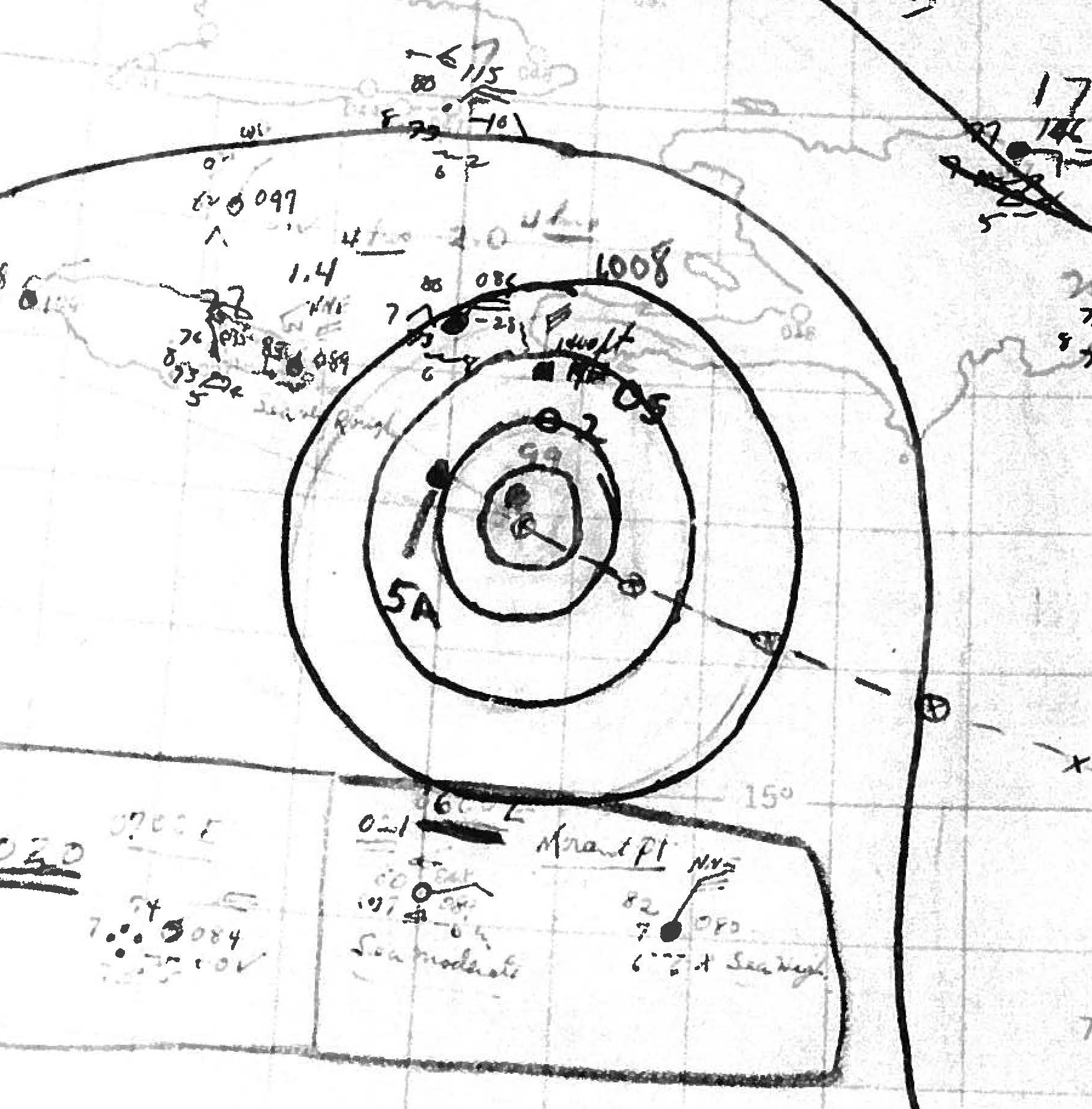 Surface weather analysis of the fourth hurricane of the 1944 Atlantic hurricane season near its peak intensity at 06:00 UTC on August 20, 1944 near Jamaica.